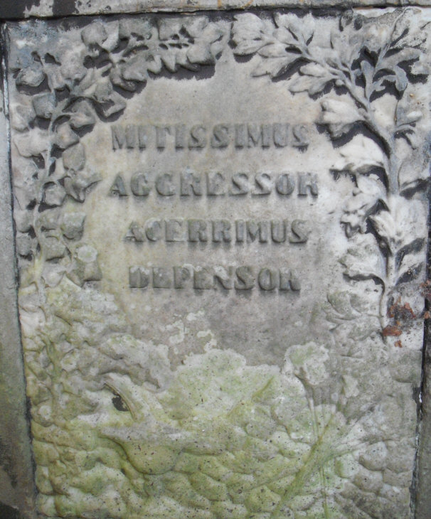 Detail of the memorial to Dr.Georg Hartog Gerson